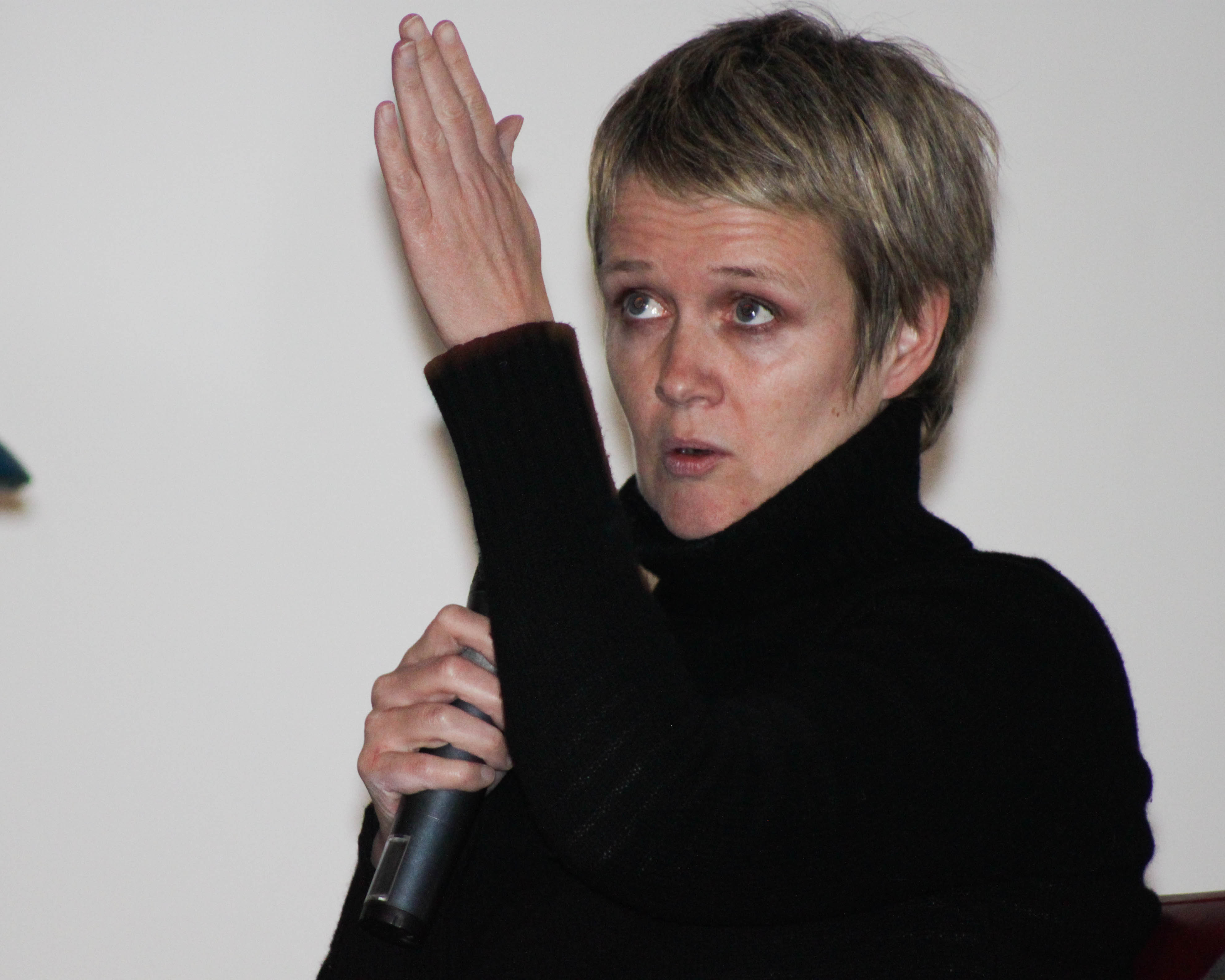 Melanie Smith on a question and answer session. Mexico City, 16 February, 2012. Picture by Delia Martinez for Ambulante Documentary Festival.